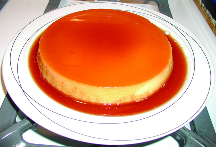 A finished Venezuelan quesillo (or flan)